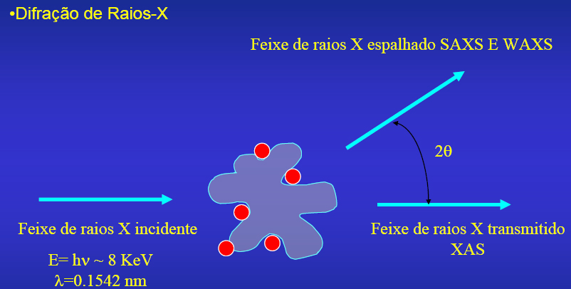 X Ray Diffraction. From